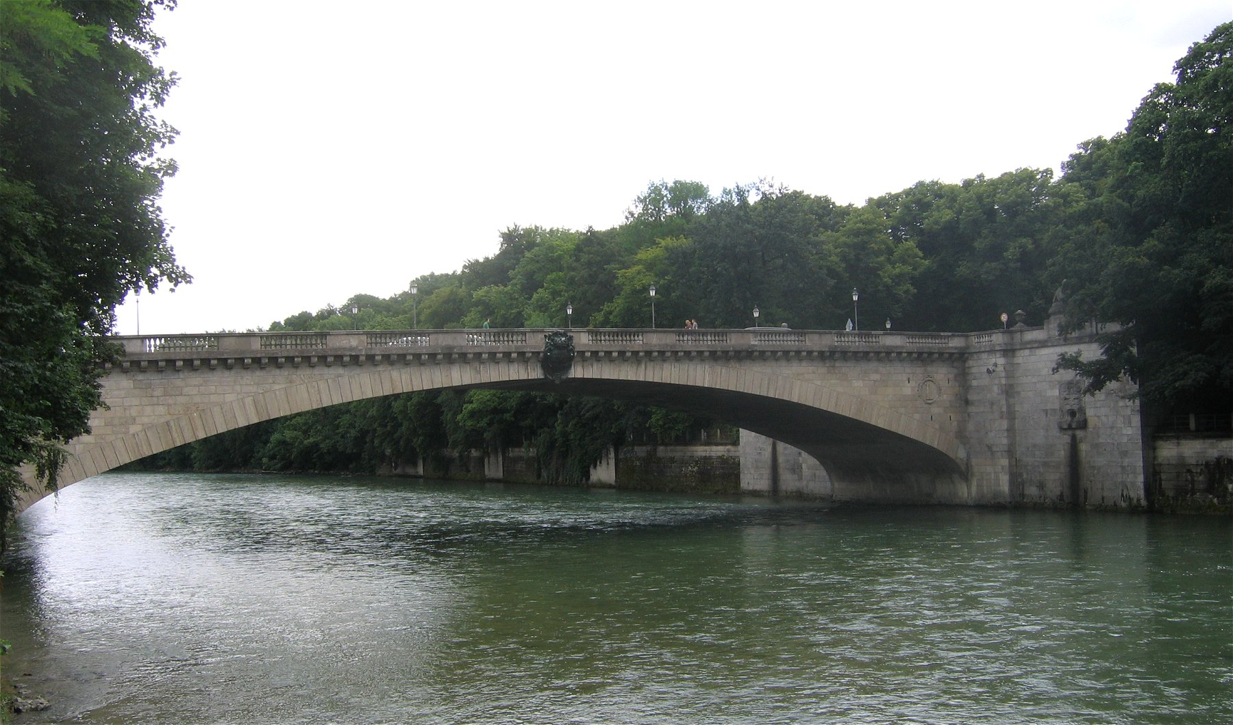 Luitpoldbrücke, Munich